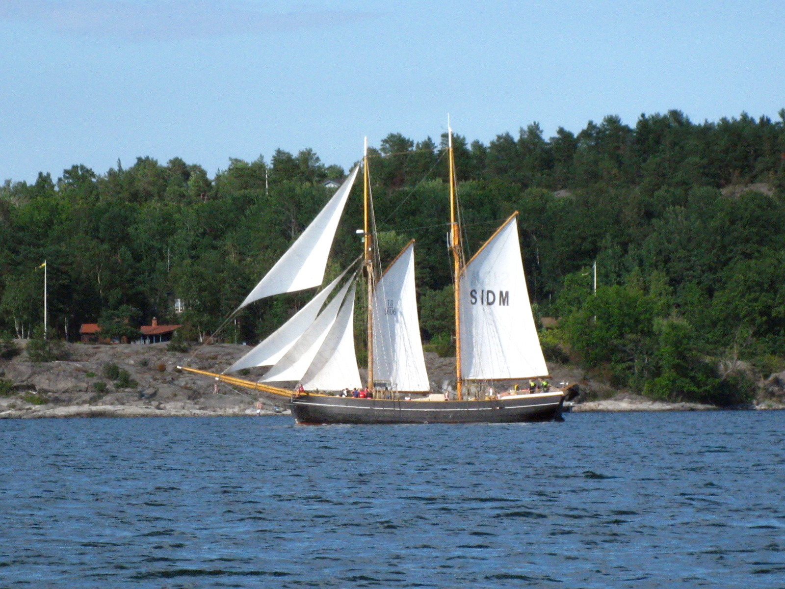 The Schooner S/Y Ellen